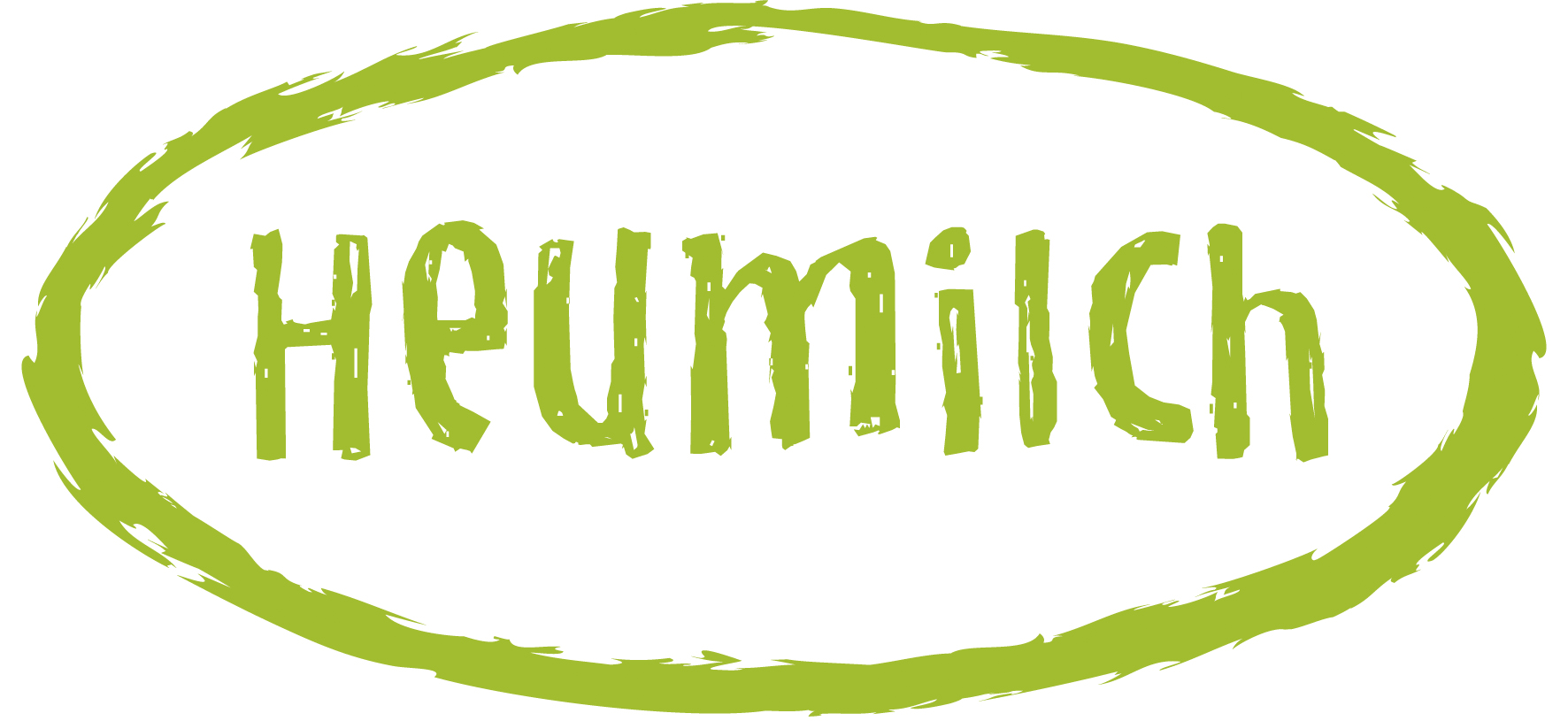 Das Heumilch-Logo.